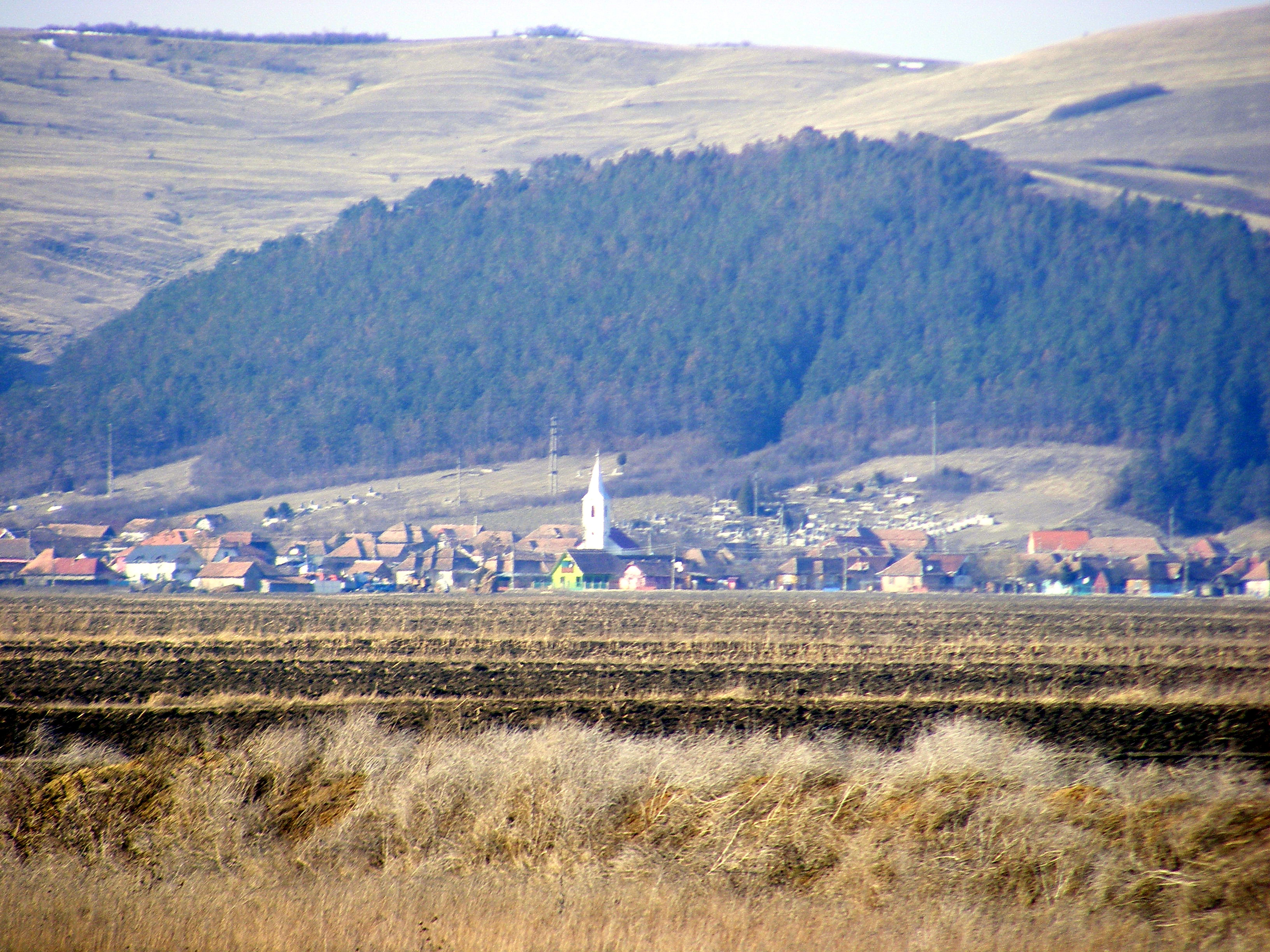 Wiew of Hadrév (Hădăreni).